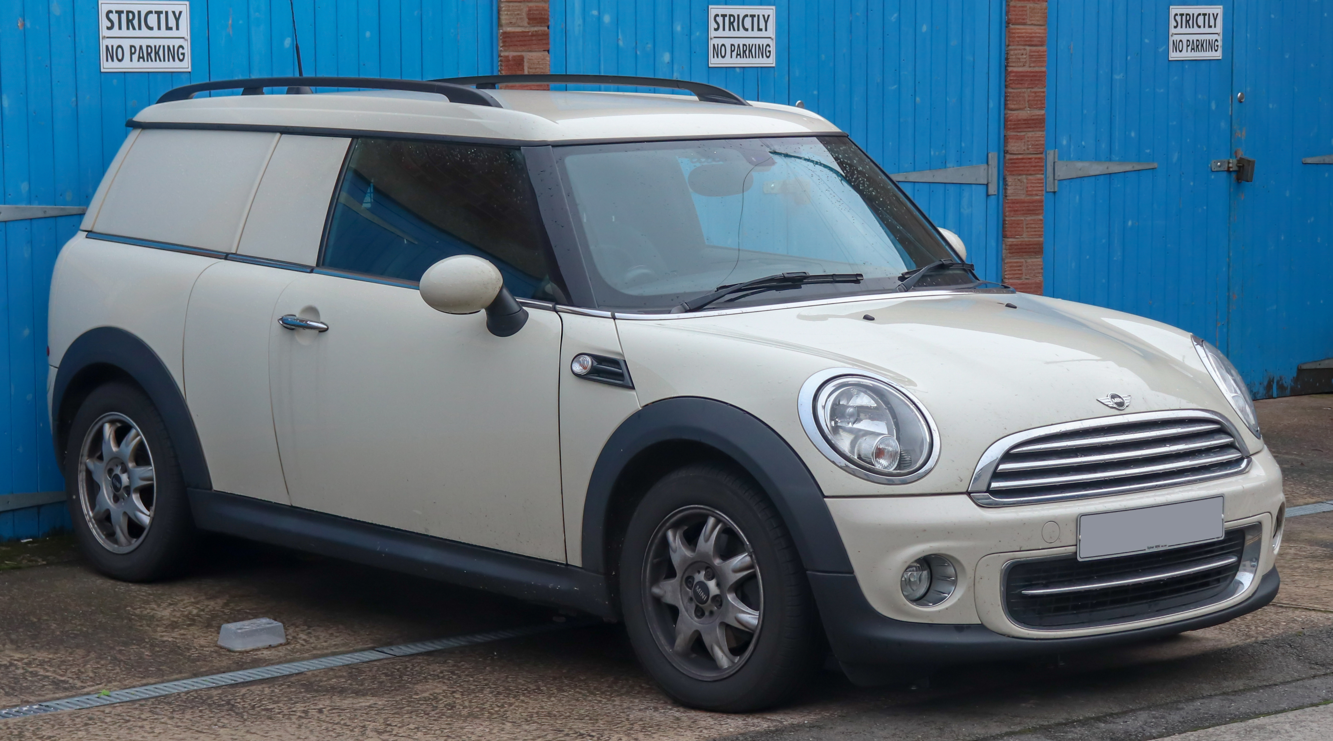 2014 Mini Clubvan Cooper 1.6 Taken in Leamington Spa